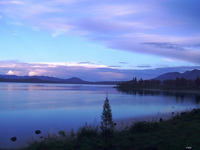 Lake Diatas, Solok regency, West Sumatra, Indonesia